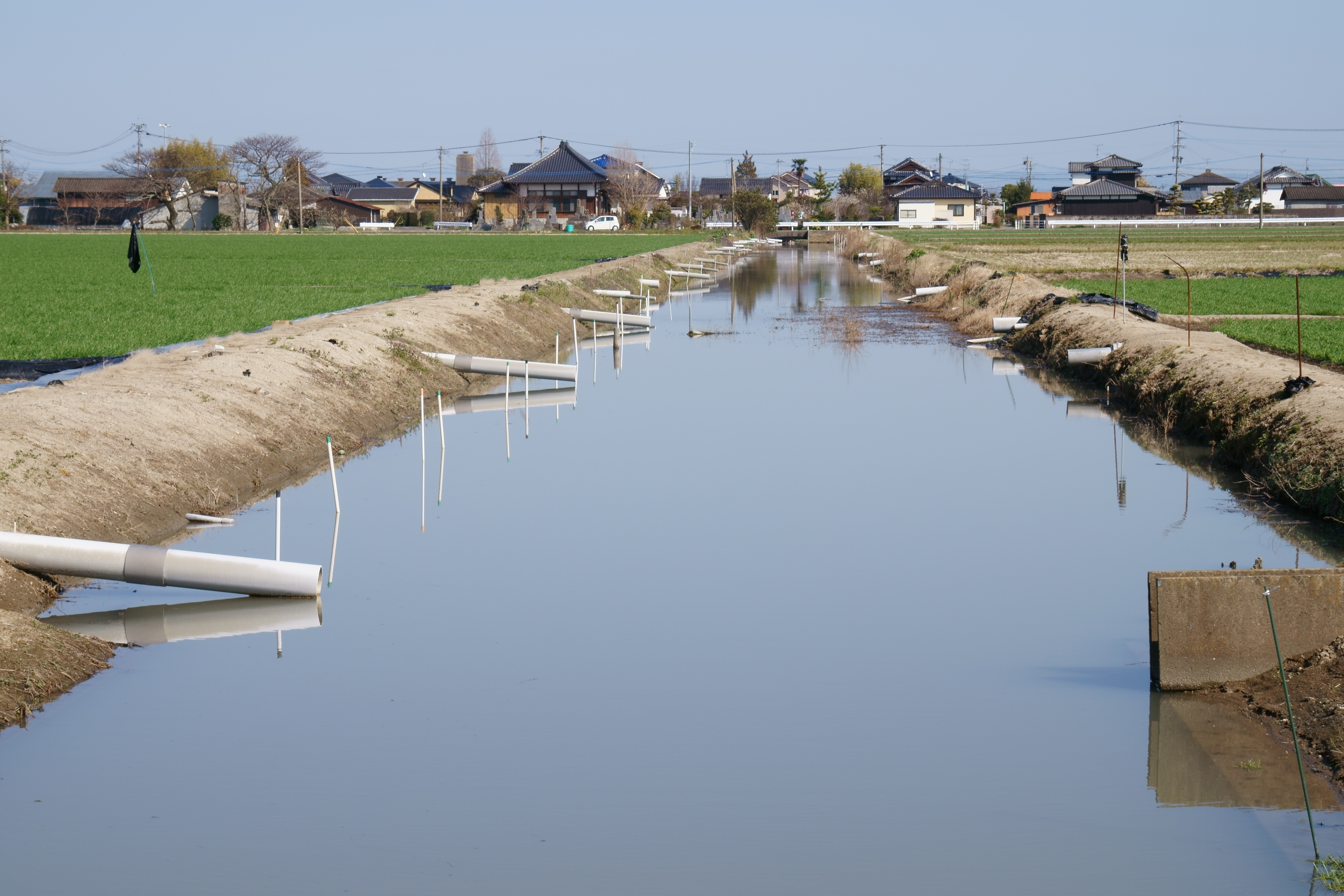 Water drainage/strage creek in wheat(paddy) fields(note: in this region, farmer cultivate rice in summer and wheat in winter), in Honjo-machi, Saga city, Saga prefecture.